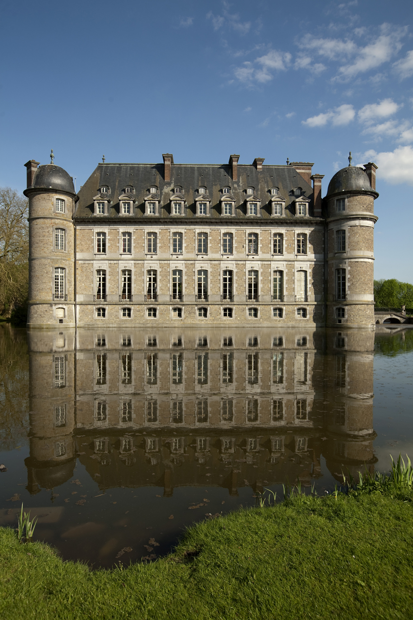 Castle and park